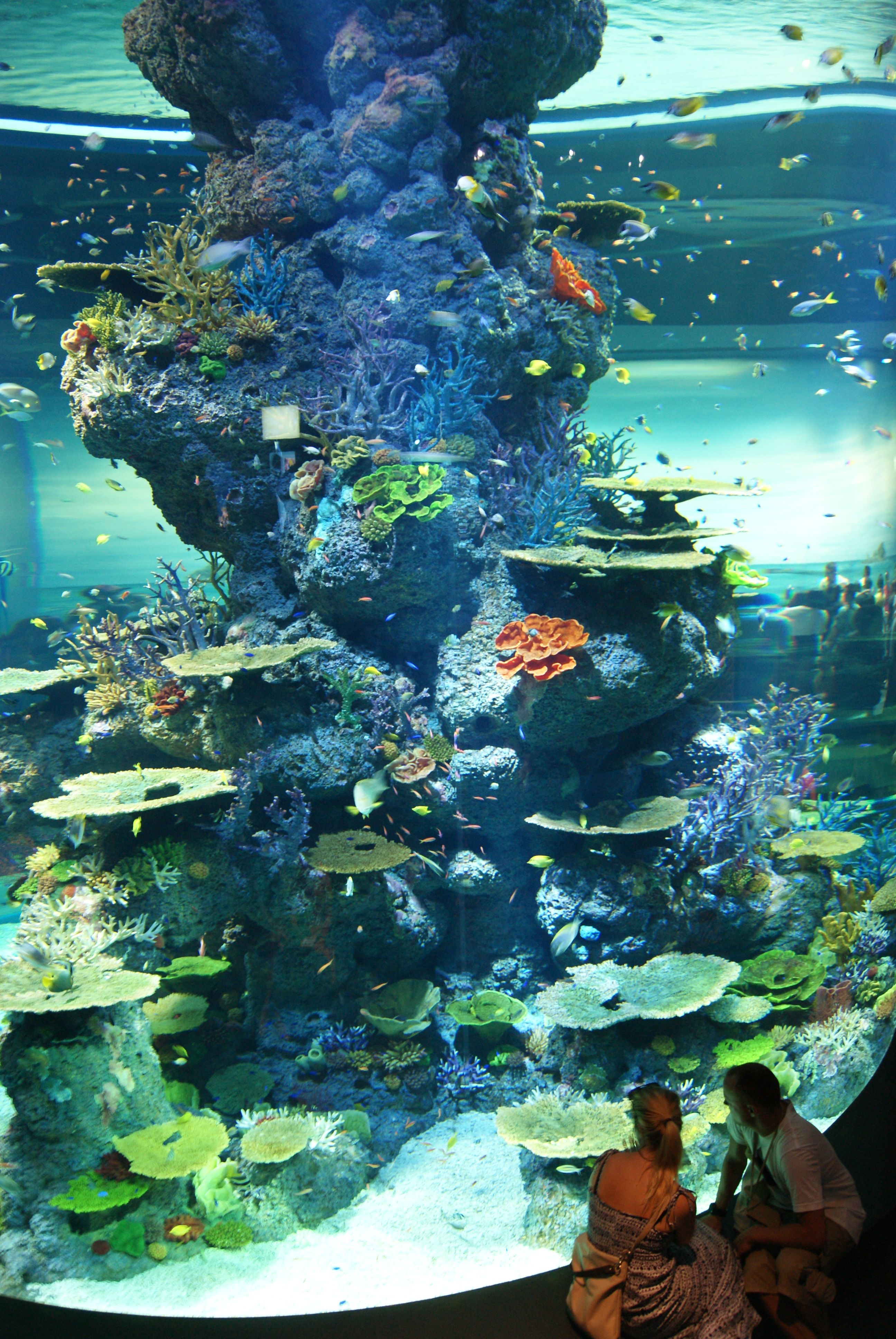 The Strait of Malacca and Andaman Sea section of the S.E.A. Aquarium in the Marine Life Park at Resorts World Sentosa, Singapore.